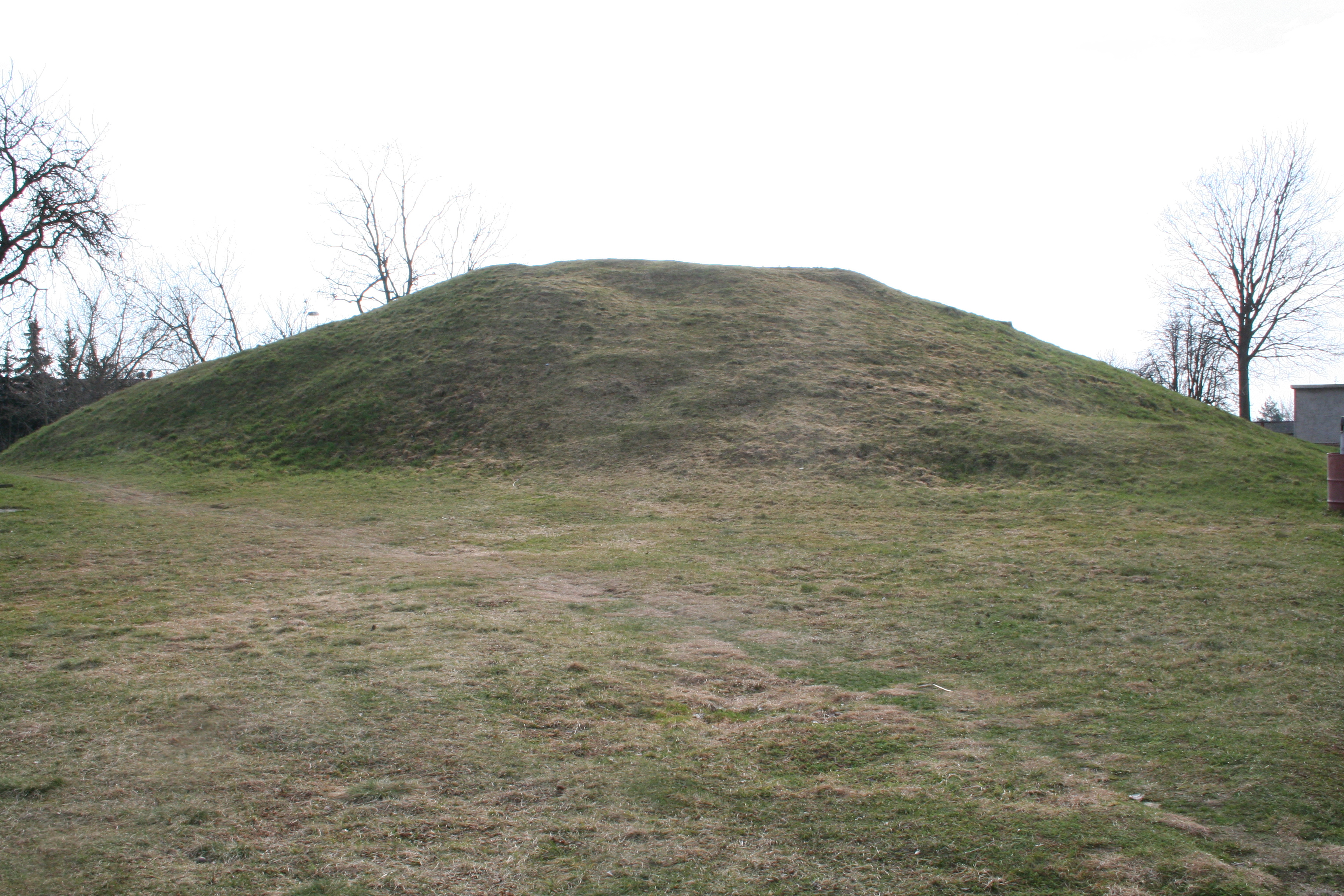 Schneiderberg, Baalberge